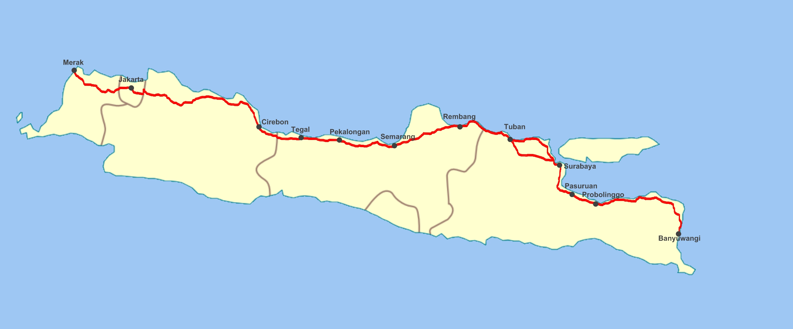 Java's North Coast Road